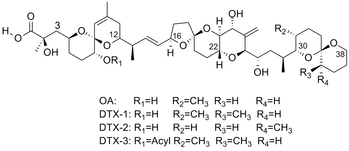 Structure of Okadaic Acid and DTX1-3